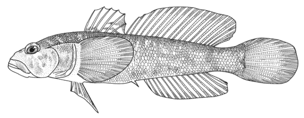 Kura River goby (Ponticola cyrius) from Iran